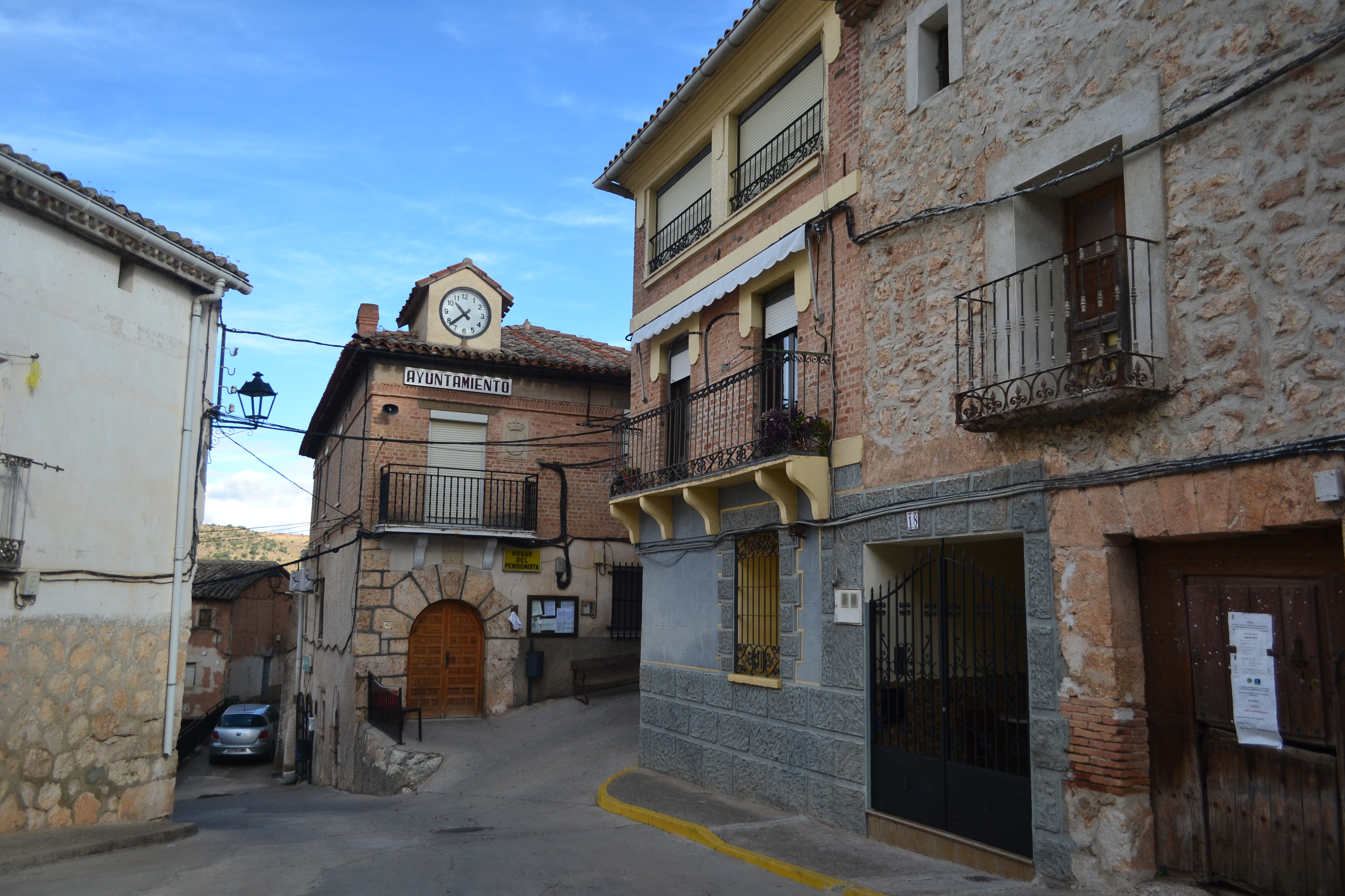 Town hall of Ledanca.